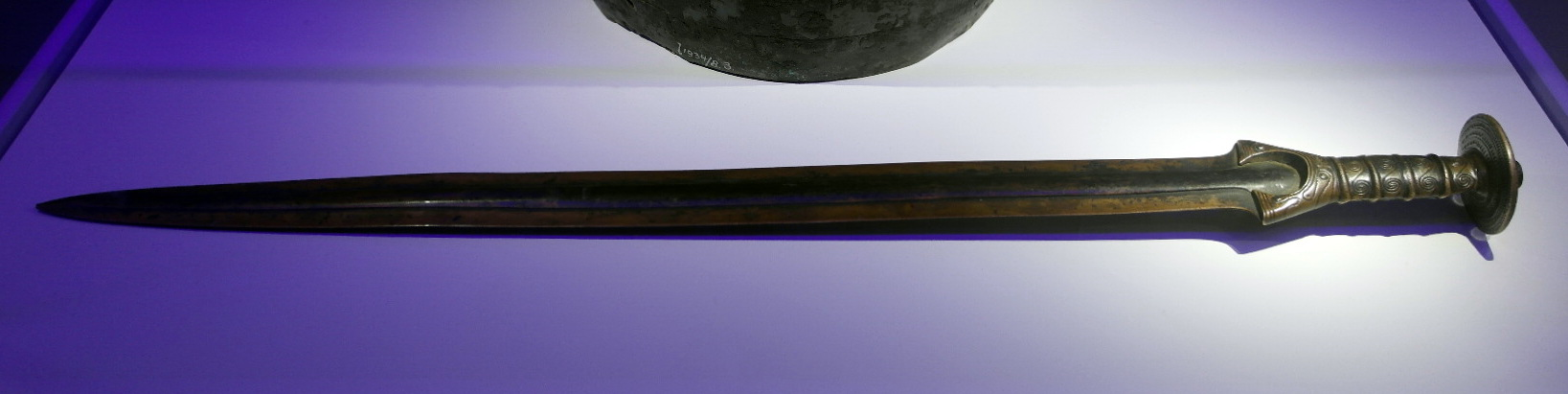 Bronze age sword of Buggenum, discovered in 1964 during dredging in the river Meuse near Buggenum, Limburg, the Netherlands. The bronze object dates from 1300-1100 BC and is now in the collection of the Rijksmuseum van Oudheden in Leiden. This photo was taken during the temporary exhibition Topstukken van het Rijksmuseum van Oudheden in the Limburgs Museum in Venlo, while the museum in Leiden was closed for renovations.